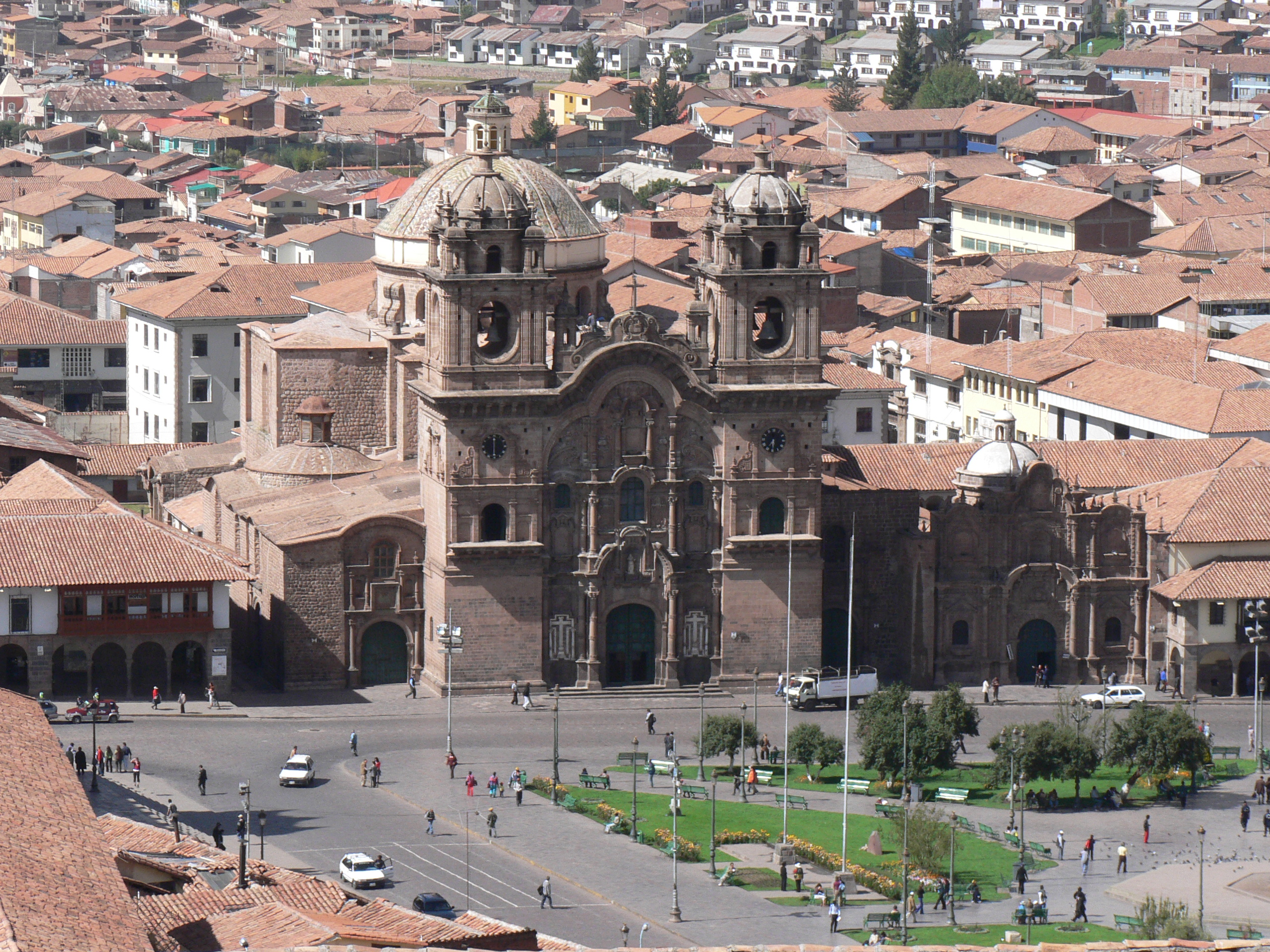 The Jesuit Church in Cusco, Peru.